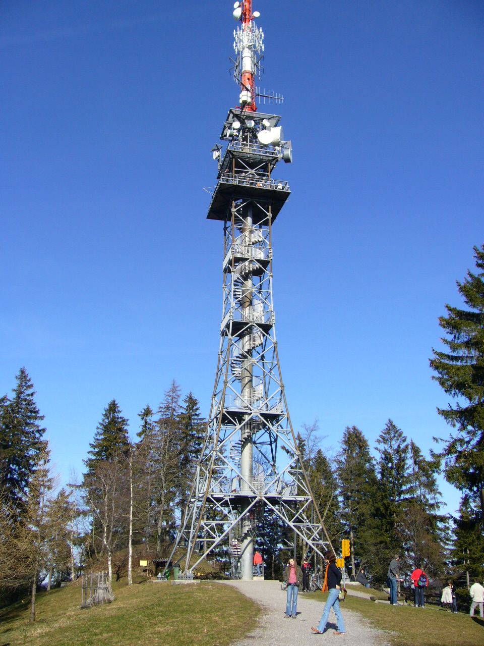 look-out on the mountain Bachtel (1115 m), canton of Zurich, Switzerland. Picture taken by Peter Berger. March 4, 2007.